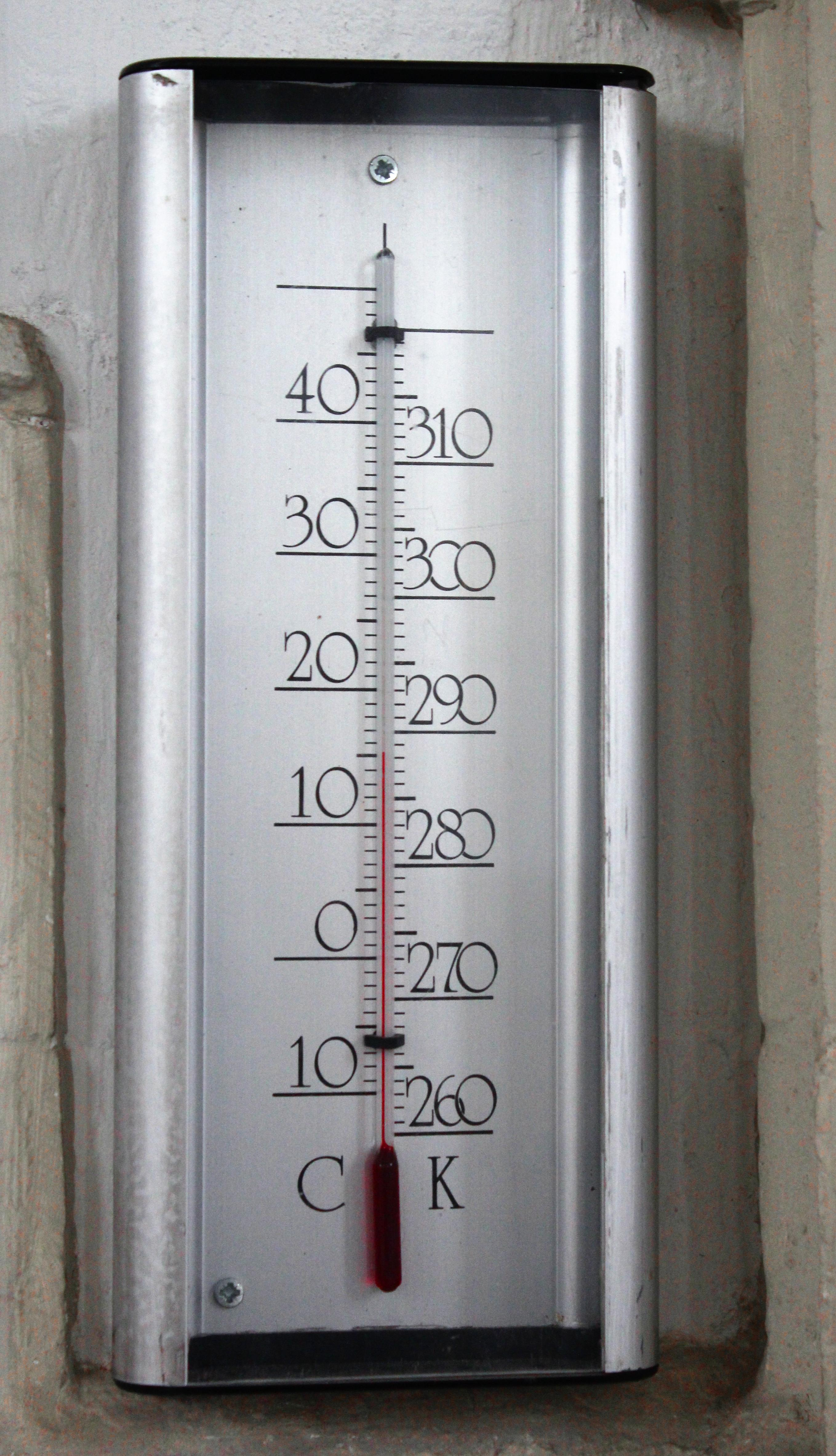 A thermometer calibrated in both kelvins and degrees Celsius. Photographed in St Stephens Church, Nijmegen, Netherlands. The thermometer itself was located in a niche in one of the columns supporting the nave.